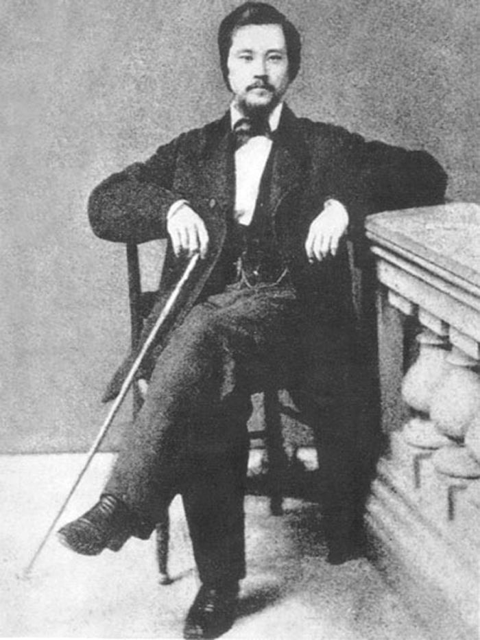 Portrait of Joseph Heco (1837-1897)